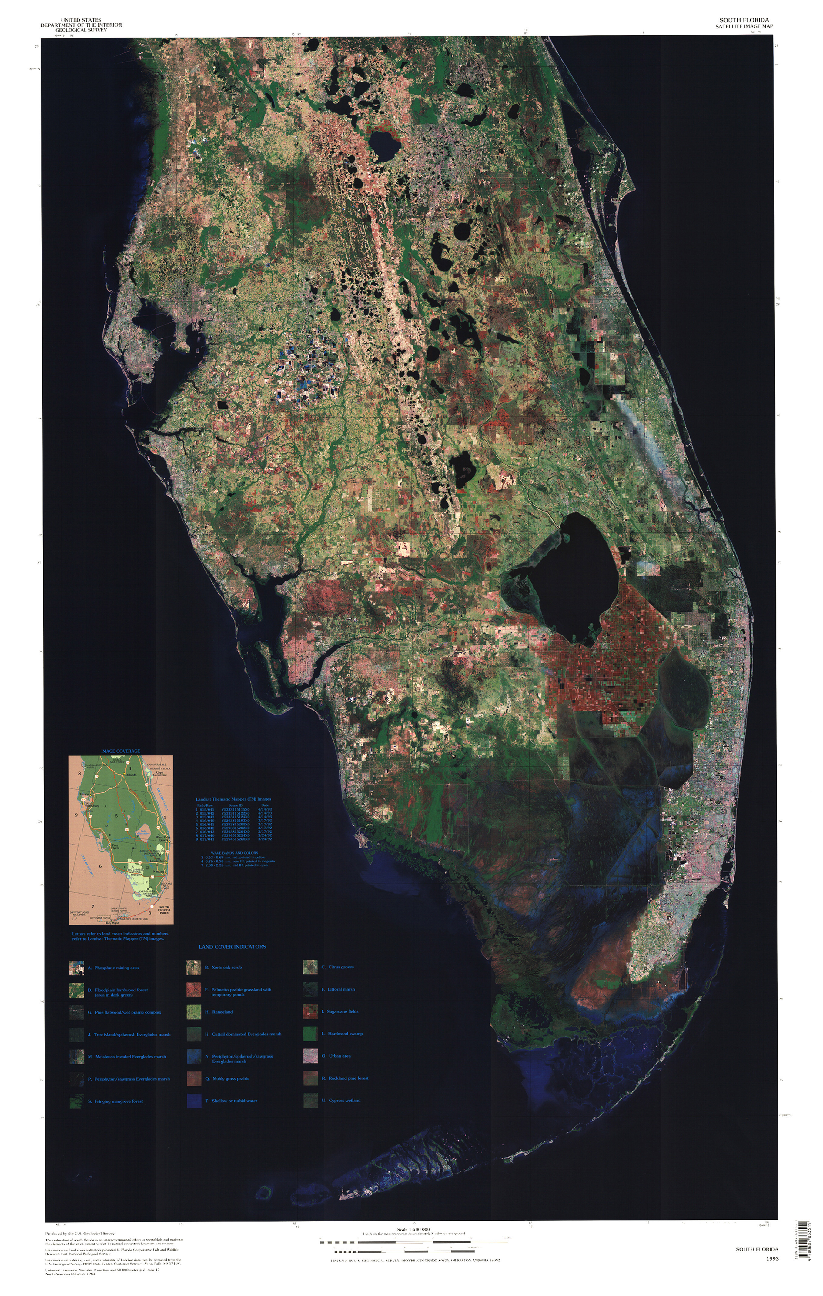 Satellite image of the lower Florida peninsula. The darkened portion south of Lake Okeechobee is the Everglades.